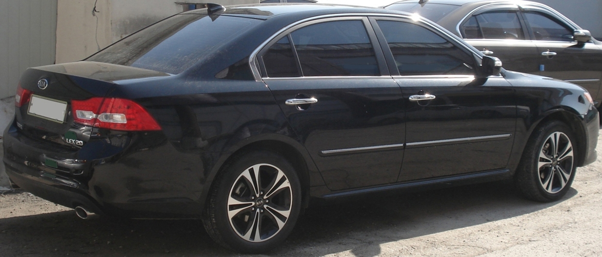 Kia Lotze Innovation